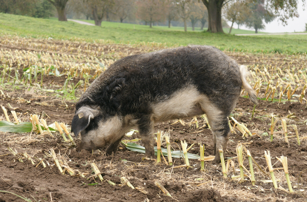 Mangalica, Pic